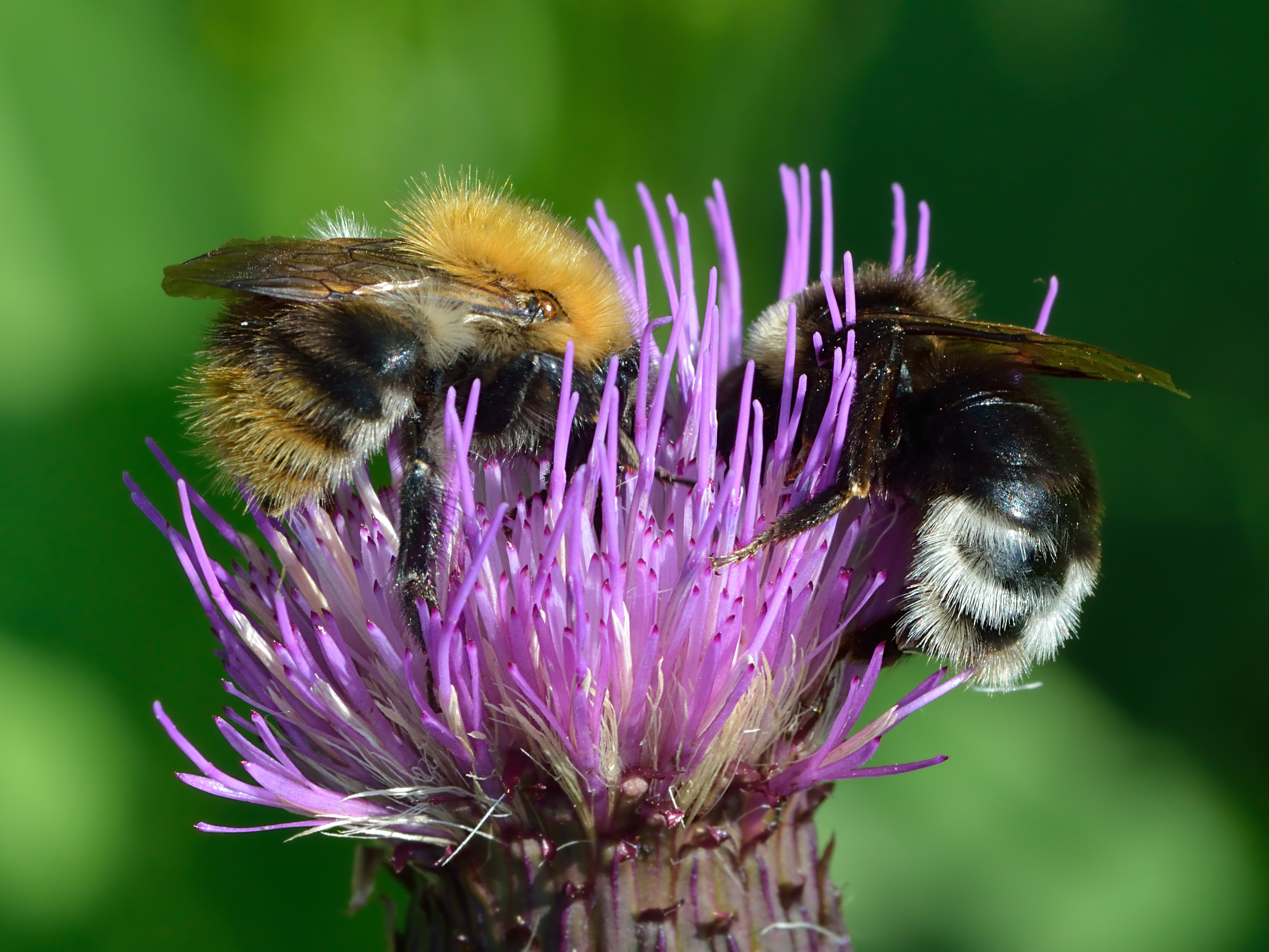 Common carder bee (Bombus pascuorum) and gypsy cuckoo bumblebee (Bombus bohemicus) on the melancholy thistle (Cirsium heterophyllum). Keila, Northwestern Estonia.